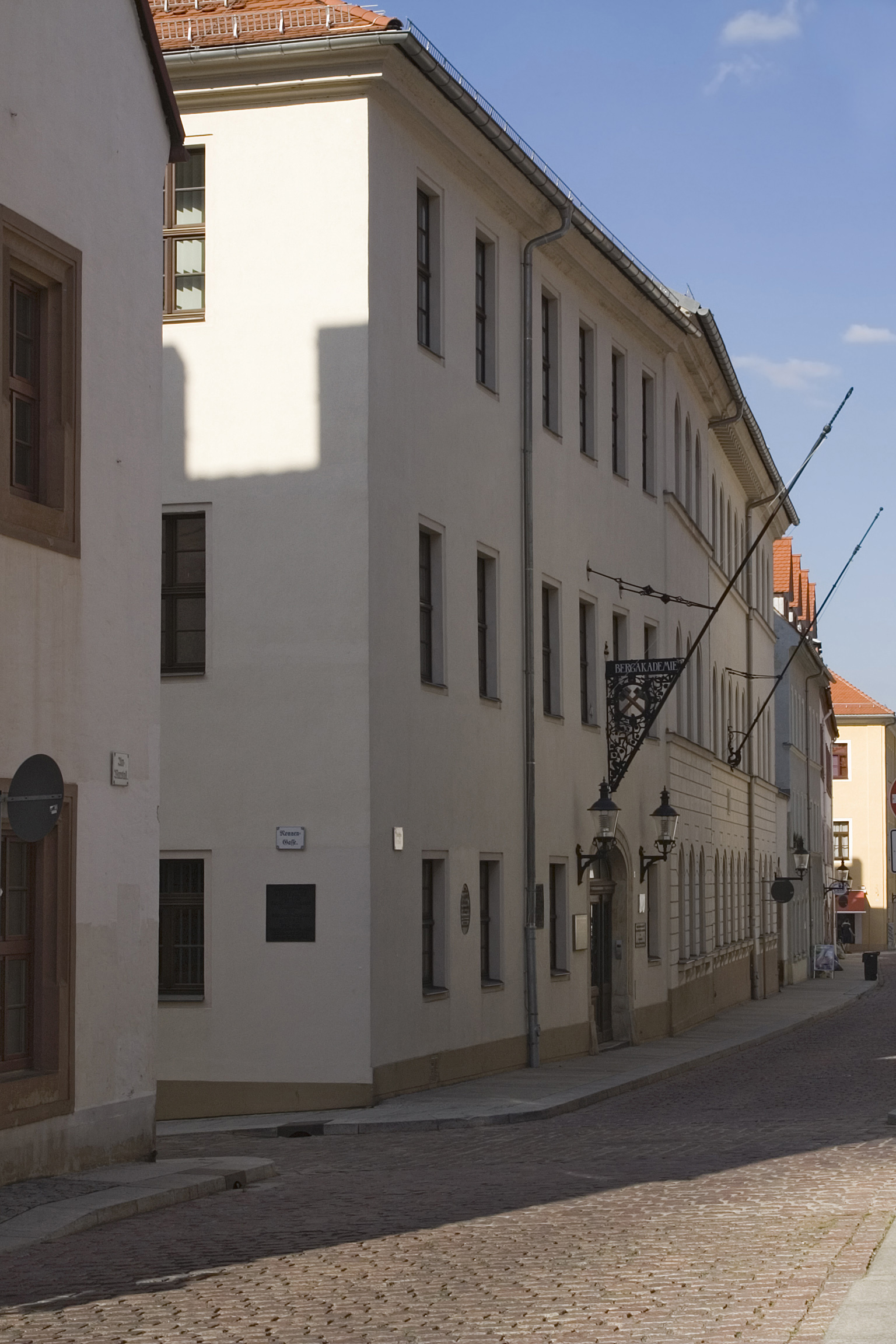 Freiberg, TU Bergakademie, main building